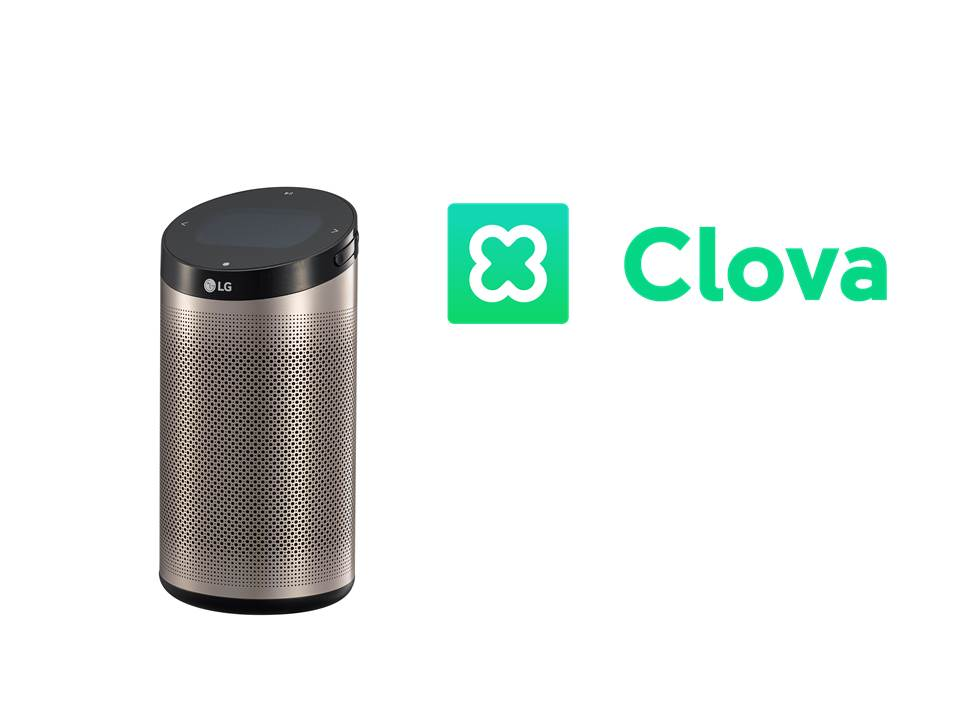 LG smart speaker with Clova (virtual assistant)